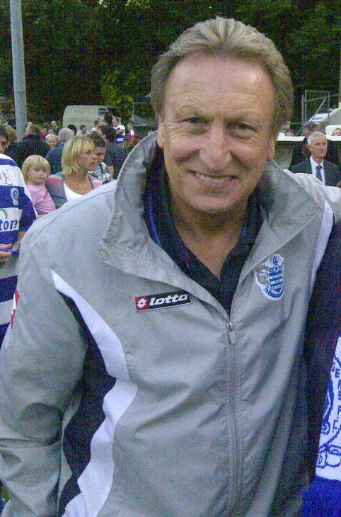 English football manager Neil Warnock, pictured during pre-season training with Queens Park Rangers F.C..